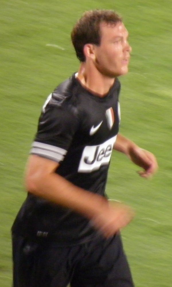 Stephan Lichtsteiner during the friendly match Juventus-Málaga played in Salerno